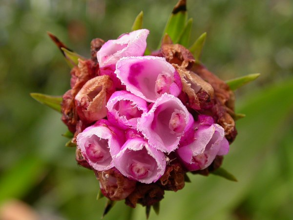 Elleanthus brasiliensis